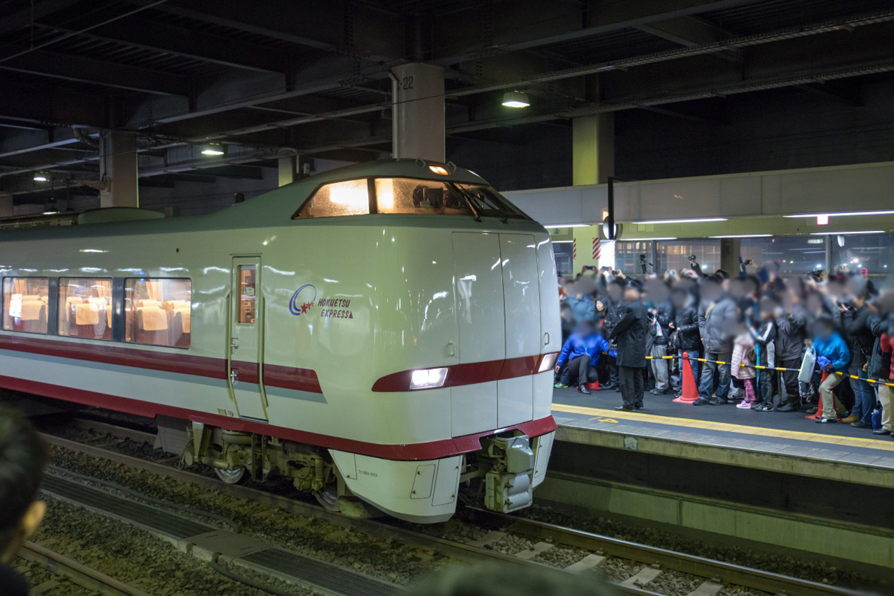 A Hokuetsu Express 683-8000 series EMU at Kanazawa Station on the final Hakutaka 25 service to Echigo-Yuzawa